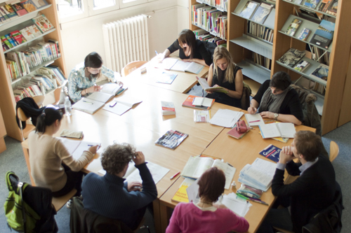 The Multimedia Resources Center in 2010.